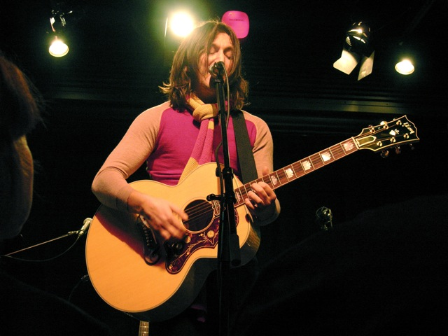 British musician Mikey Cuthbert at a concert in Pete Townshend's Oceanic Studios, December 4th, 2005